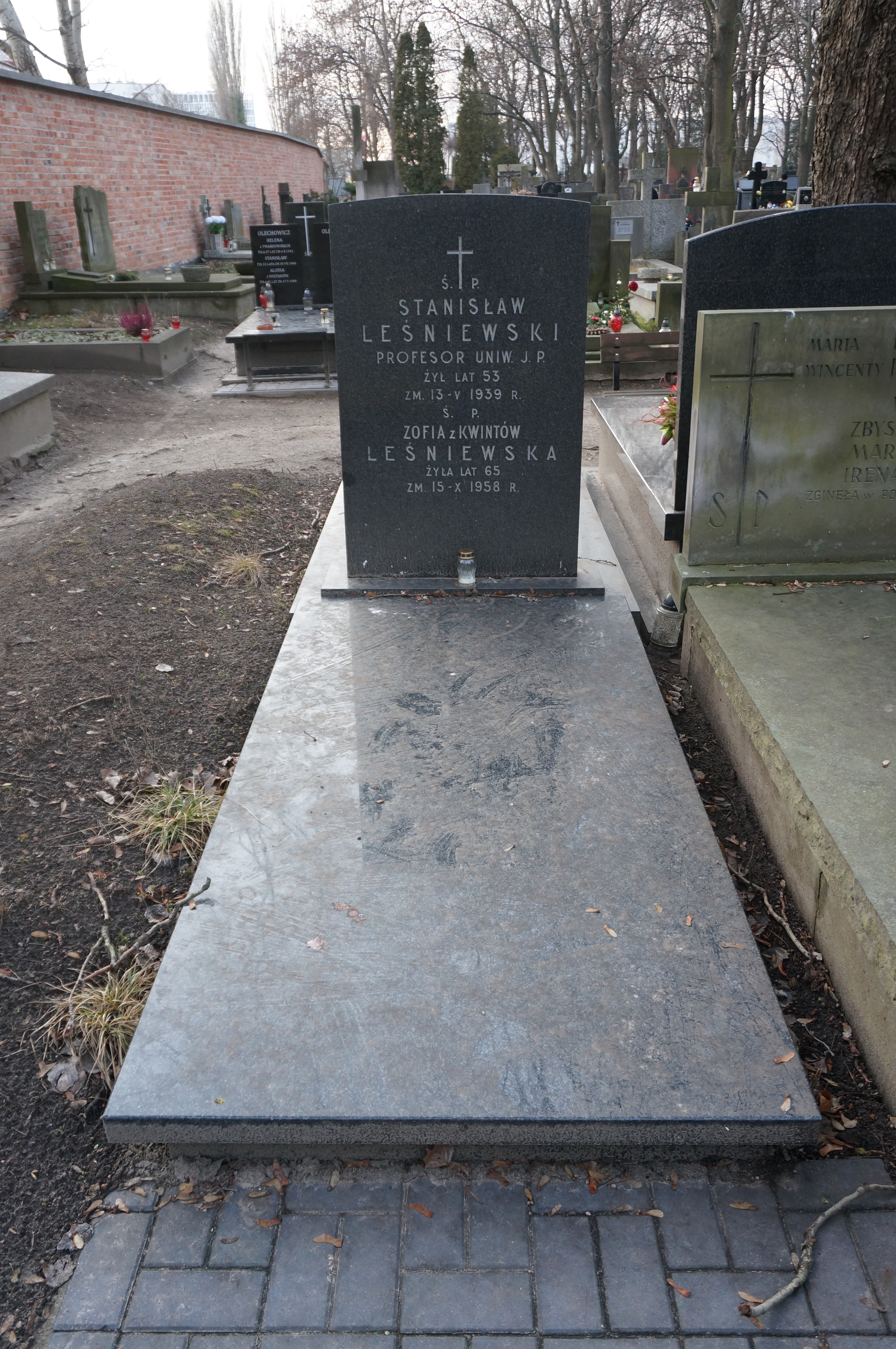 The grave of Stanisław Leśniewski at the Powązki Cemetery (section 339, row 5, grave 5)